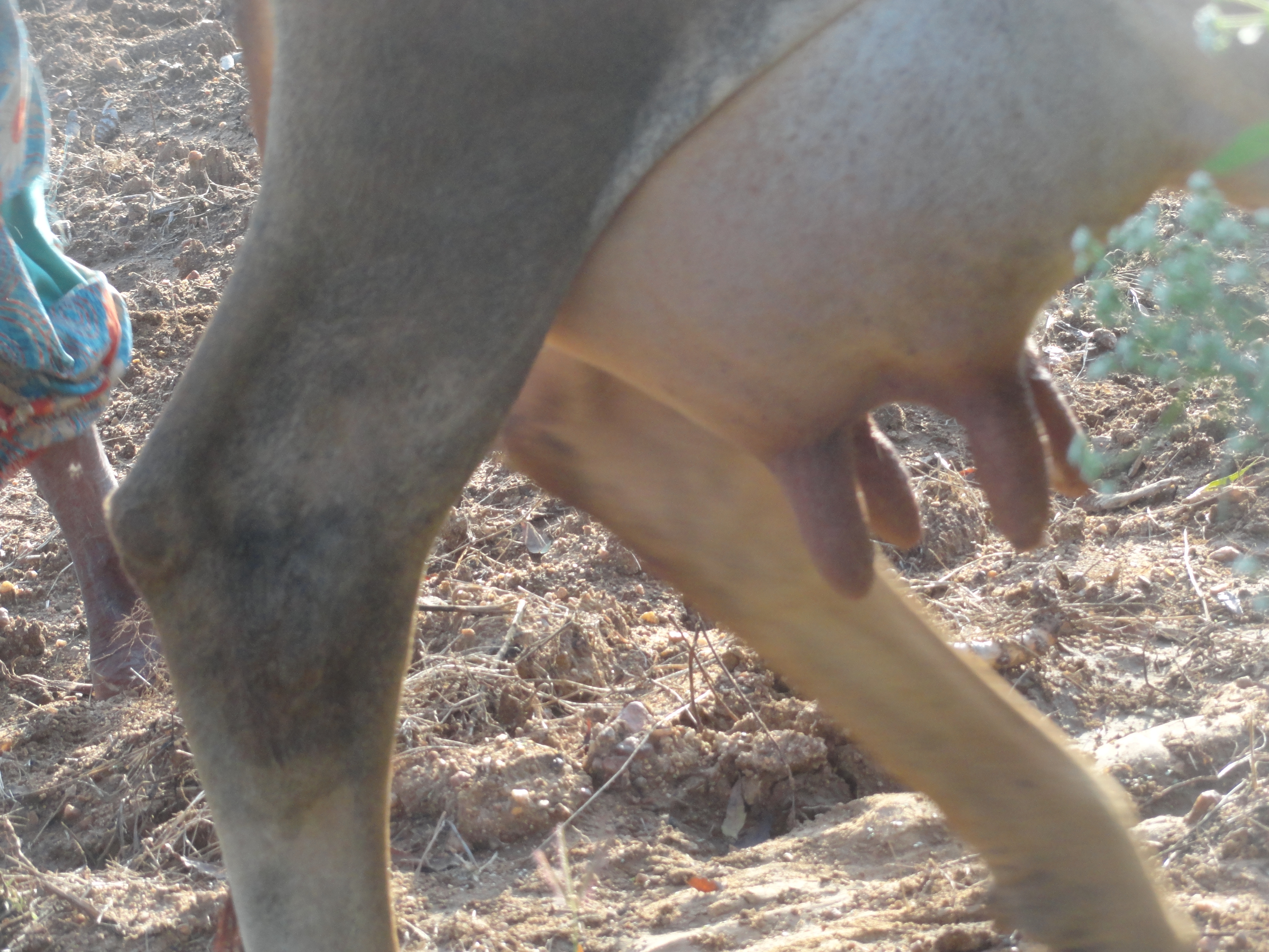 udder of a cow